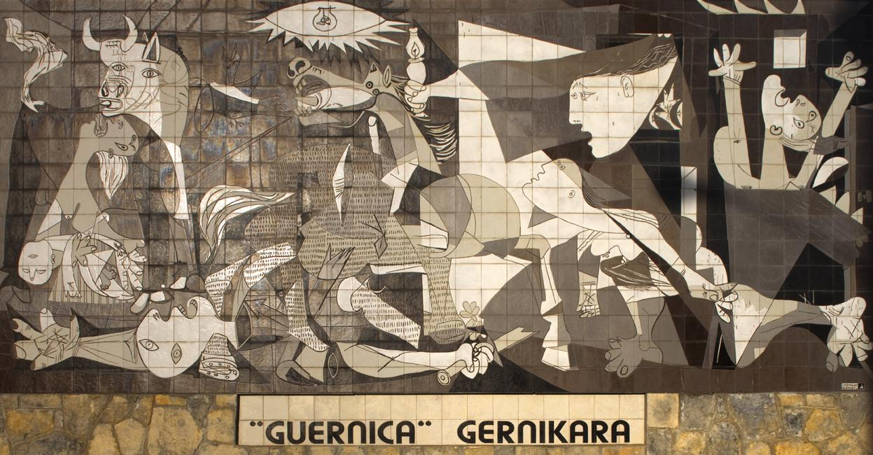 Mural of the painting "Guernica" by Picasso made in tiles and full size. Location: Guernica